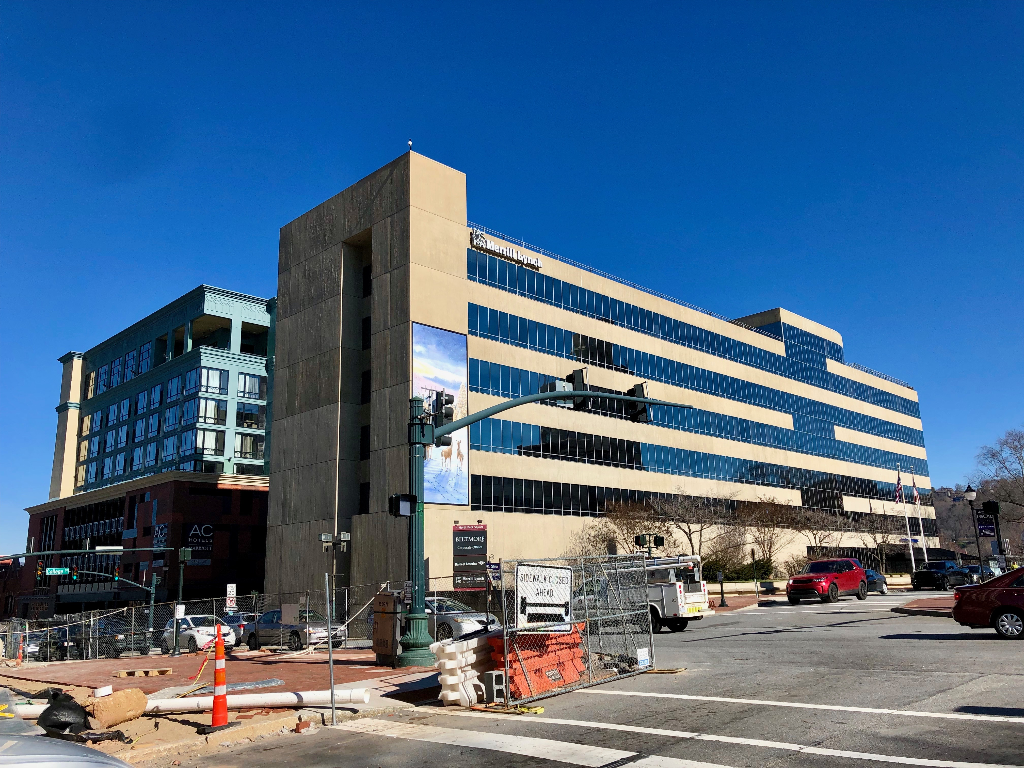 Akzona-Biltmore Building, Asheville, NC